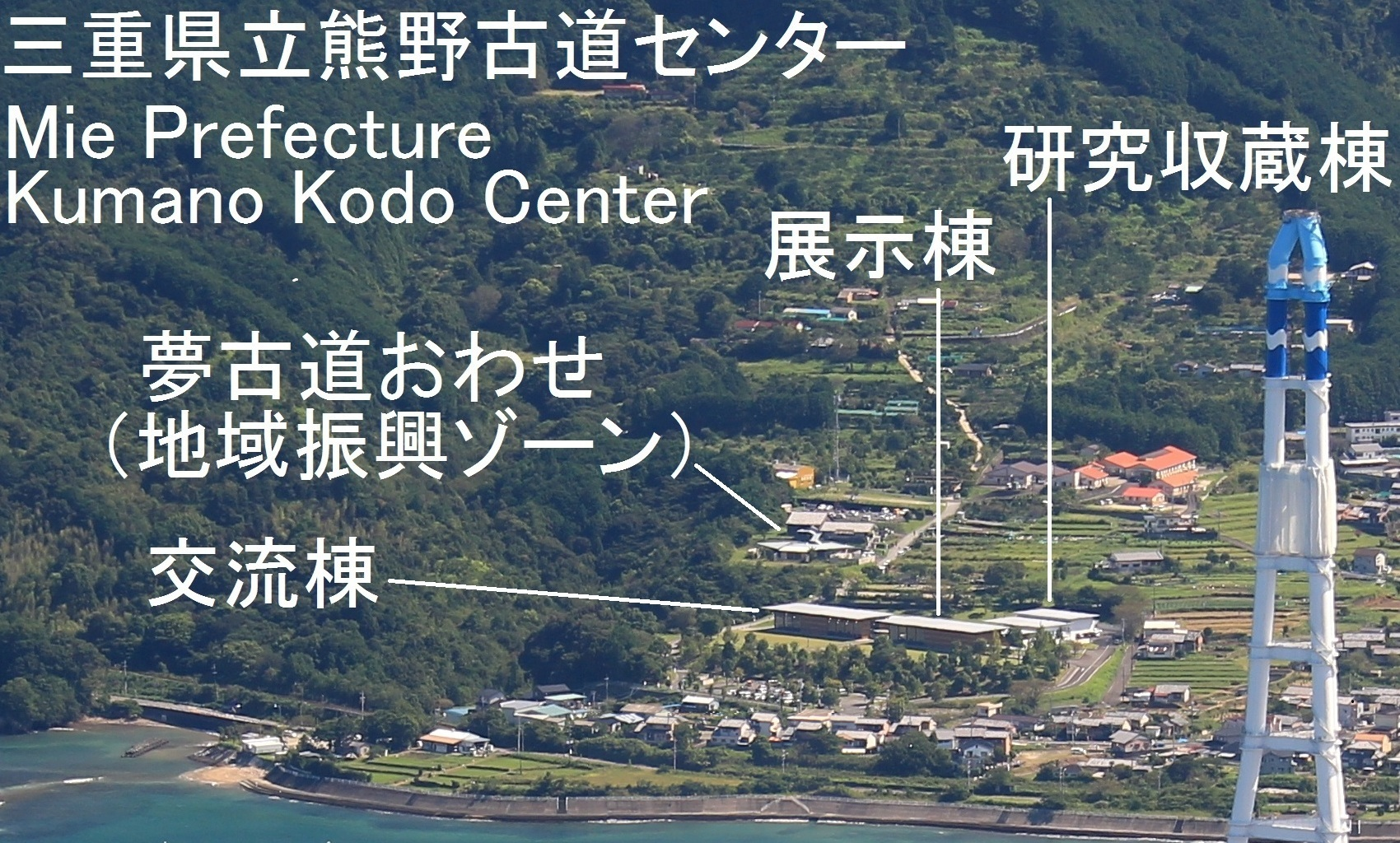 Mie Prefecture Kumano Kodo Center (with note) seen from Mount Binshi in Owase Mie Prefecture, Japan